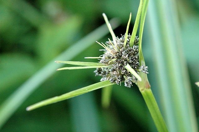 Picture taken in Commanster, Belgian High Ardennes . Species: Scirpus sylvaticus